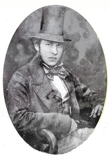 A circa 1854 photograph of English painter and illustrator Thomas Hodge (1827–1907).